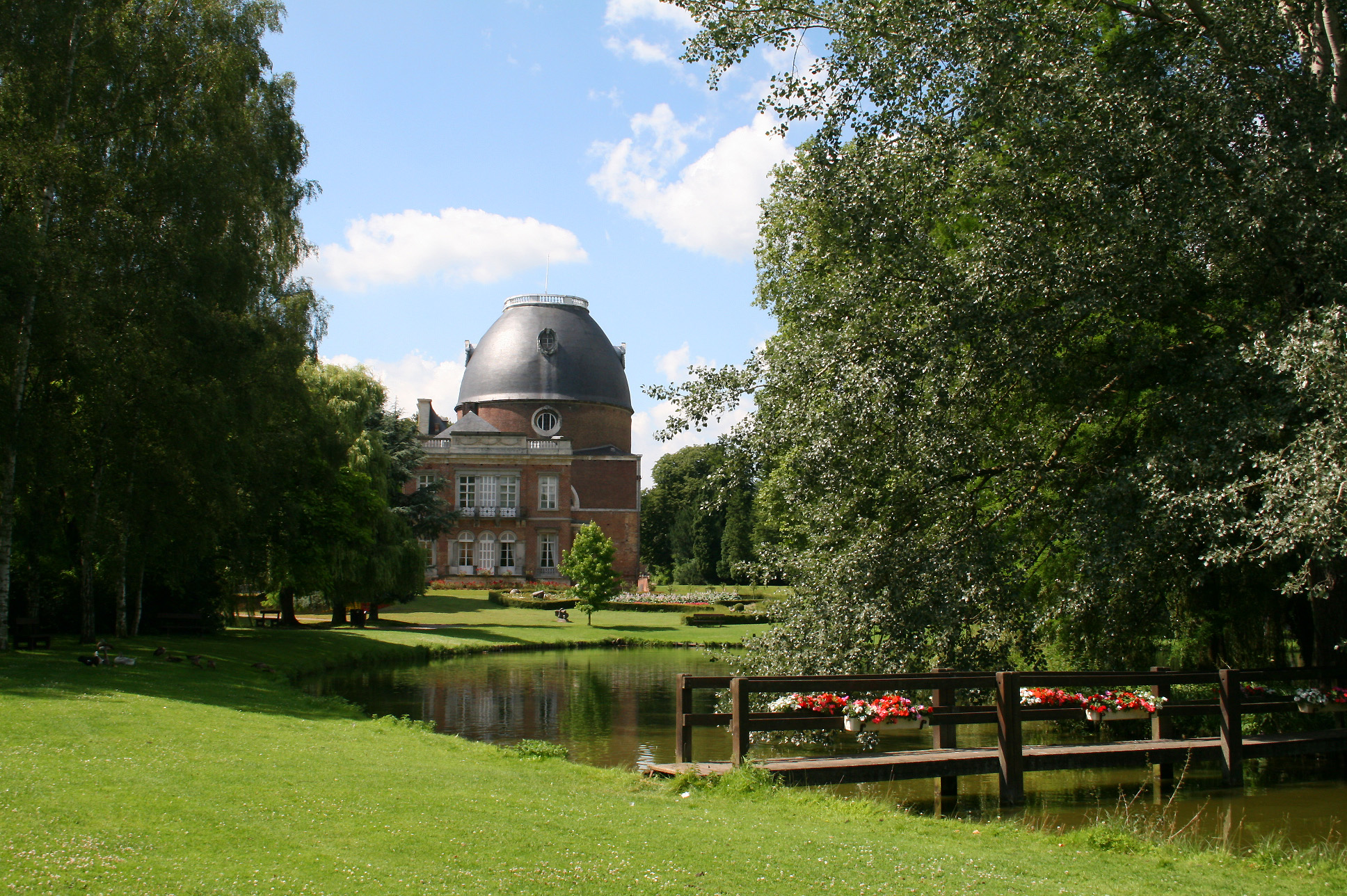 Opheylissem, right prelacy wing, tower church and park of the previous abbey (1760-1780). Walon: Opélissèm, dreût costè dol prélatûre, toûr di l'èglîje èt parc di l'ancyin.ne abéye (1760-1780).